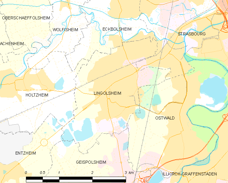 Map of French municipality